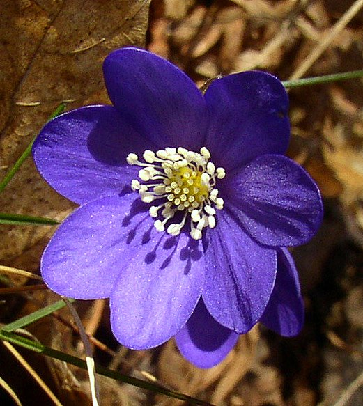 The wild blue anemones did survive the sudden winter during Eastertime and now the process in nature can go on from where we were in the middle of March